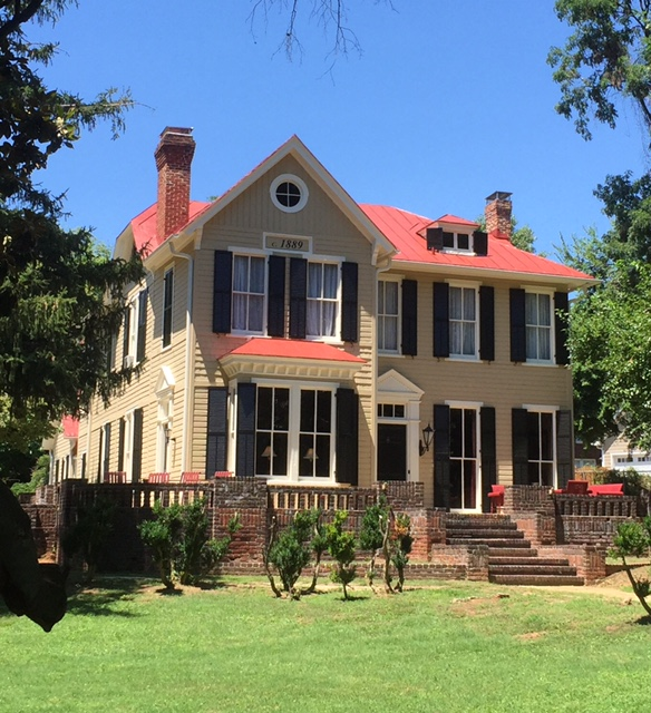 Marburg